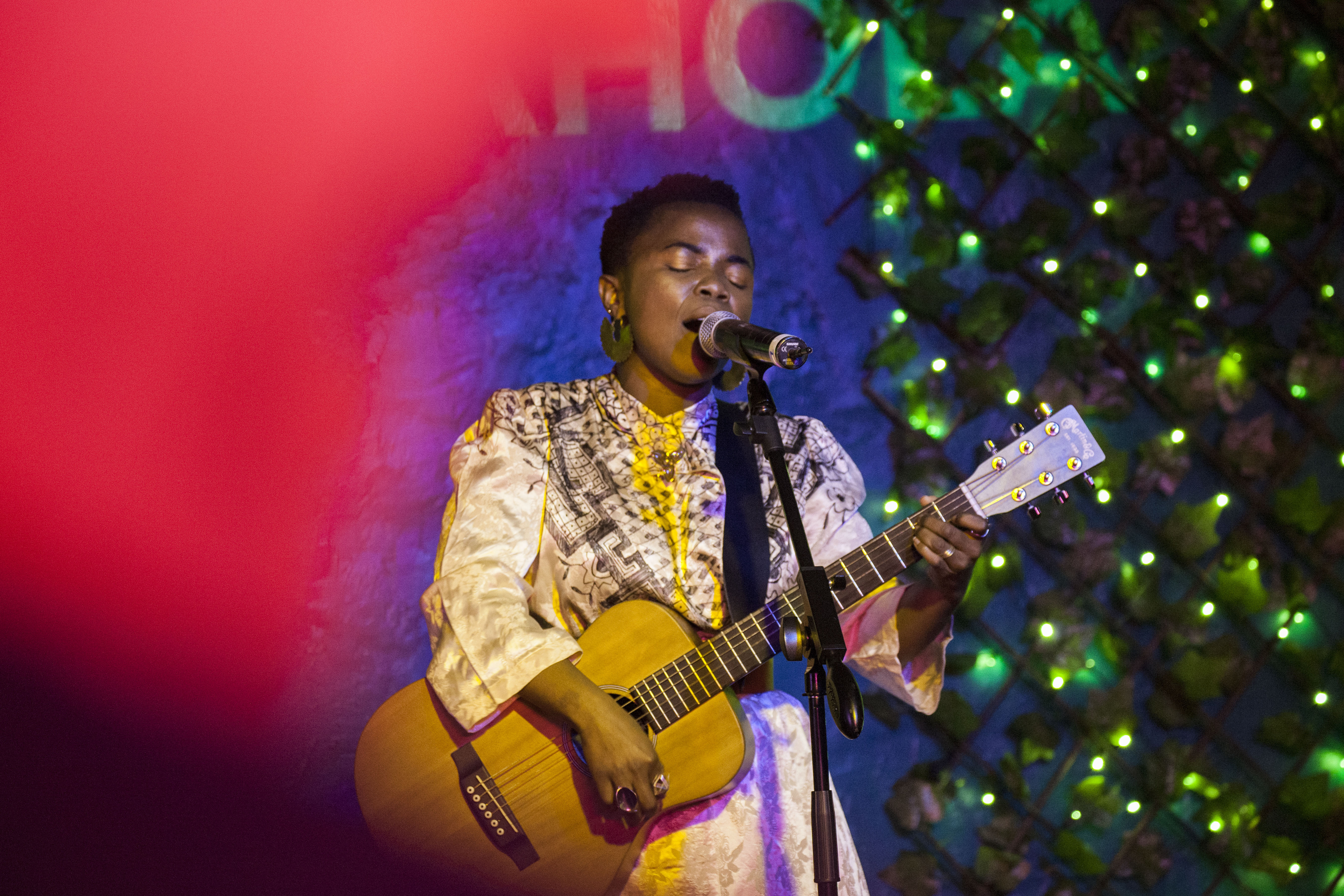 Zolani Mahola performing her first solo showcase at the Raptor Room in Cape Town in 2019.